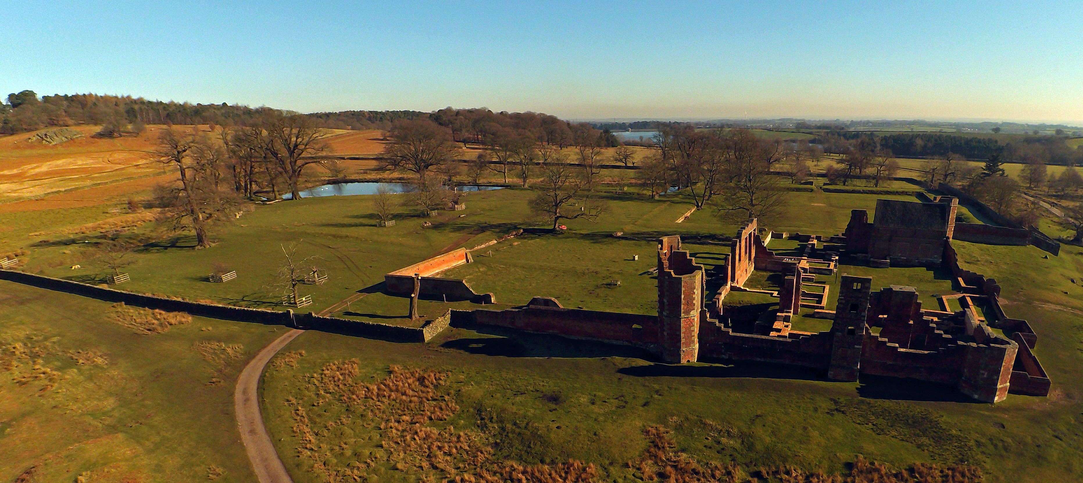 24th February 2016